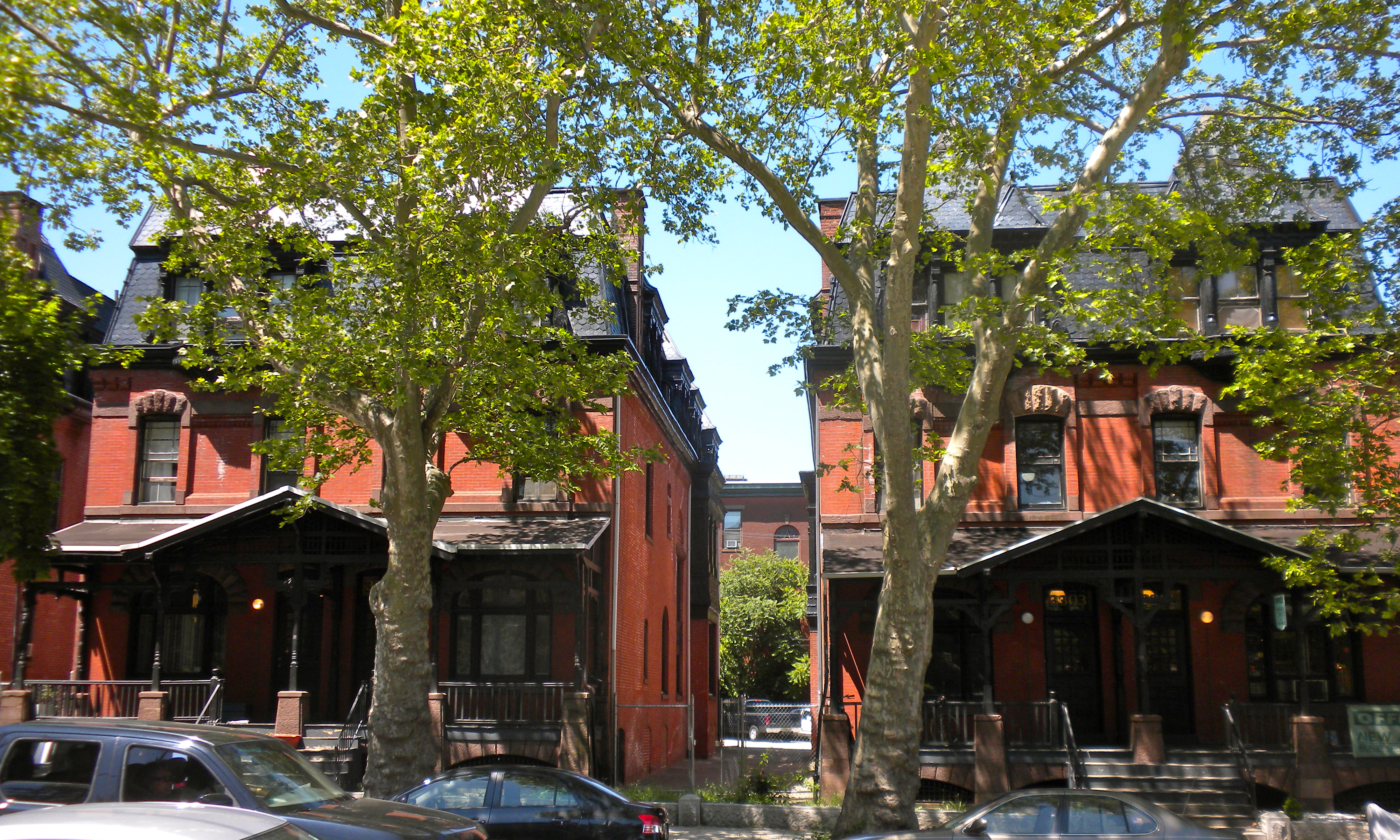 Frederick A. Poth Houses on NRHP since April 19, 1979. At 3301–3311, 3315 (here 3301-3307) Powelton Avenue in Powelton Village neighborhood of west Philadelphia. Near Drexel and U Penn campuses.